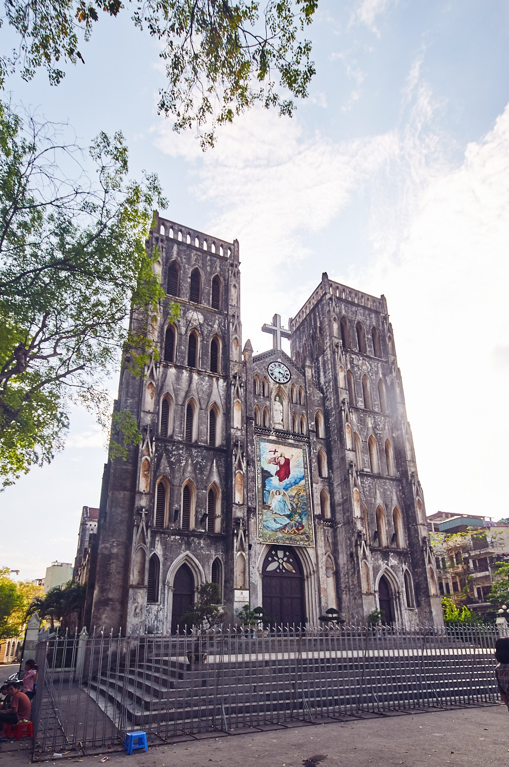 Vietnam